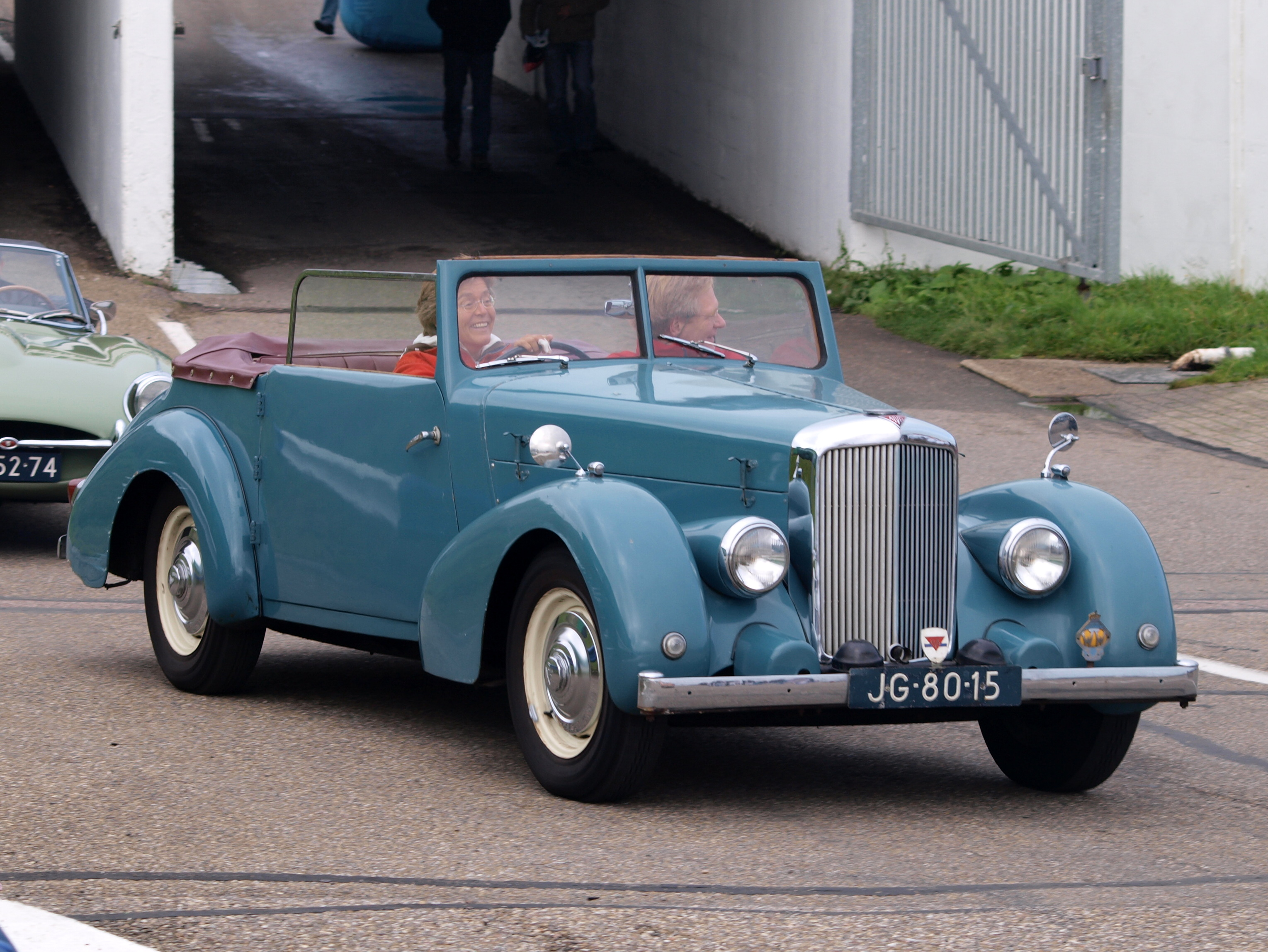 1946 Alvis TA14 with cabriolet body by Pennock. Only other Alvis TA14 by Pennock was a drophead coupé chassis 20532 Left Alvis factory 21 August 1946Photographed at the Nationaal Oldtimer Festival Zandvoort 2010, The Netherlands.